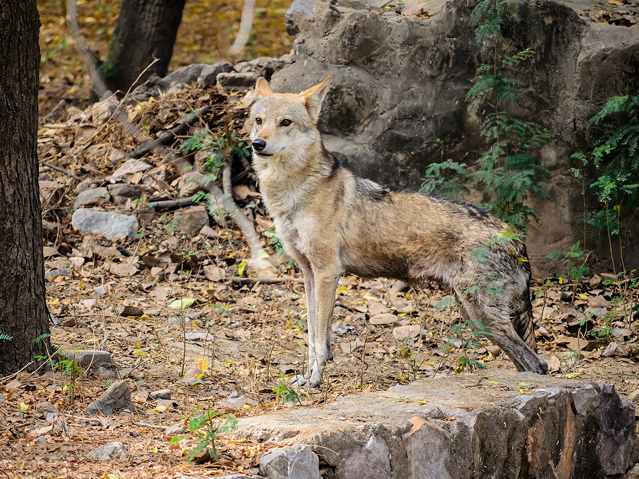 This image is capture at Delhi Zoo.